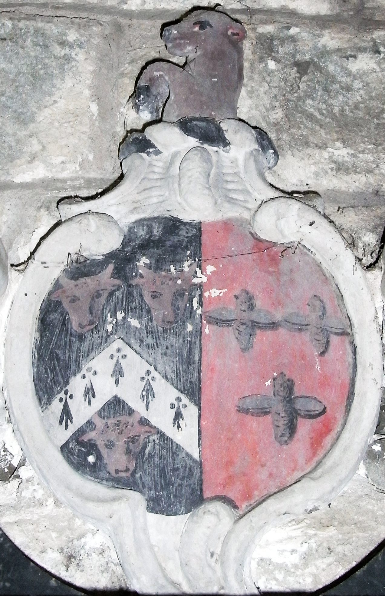 Arms of John Cunningham Saunders (1737-Sept.1783), Esquire, of Lovistone in the parish of Huish, detail from top of his mural monument in the Church of St James the Less, Huish, displaying the arms of Saunders (Sable, a chevron ermine between three bull's faces cabossed or) impaling those of his wife Jane (of unidentified family) (Gules, three quatrefoils or). These are a differenced version of the arms of William Saunders (d.1481[1]) of Charlwood in Surrey (Sable, a chevron ermine between three bull's faces cabossed argent), who married Joan Carew, one of the daughters and co-heiresses of the prominent Thomas Carew of Beddington in Surrey. His great-grandson was Sir Thomas Sanders (sic) (fl.1653).[2]